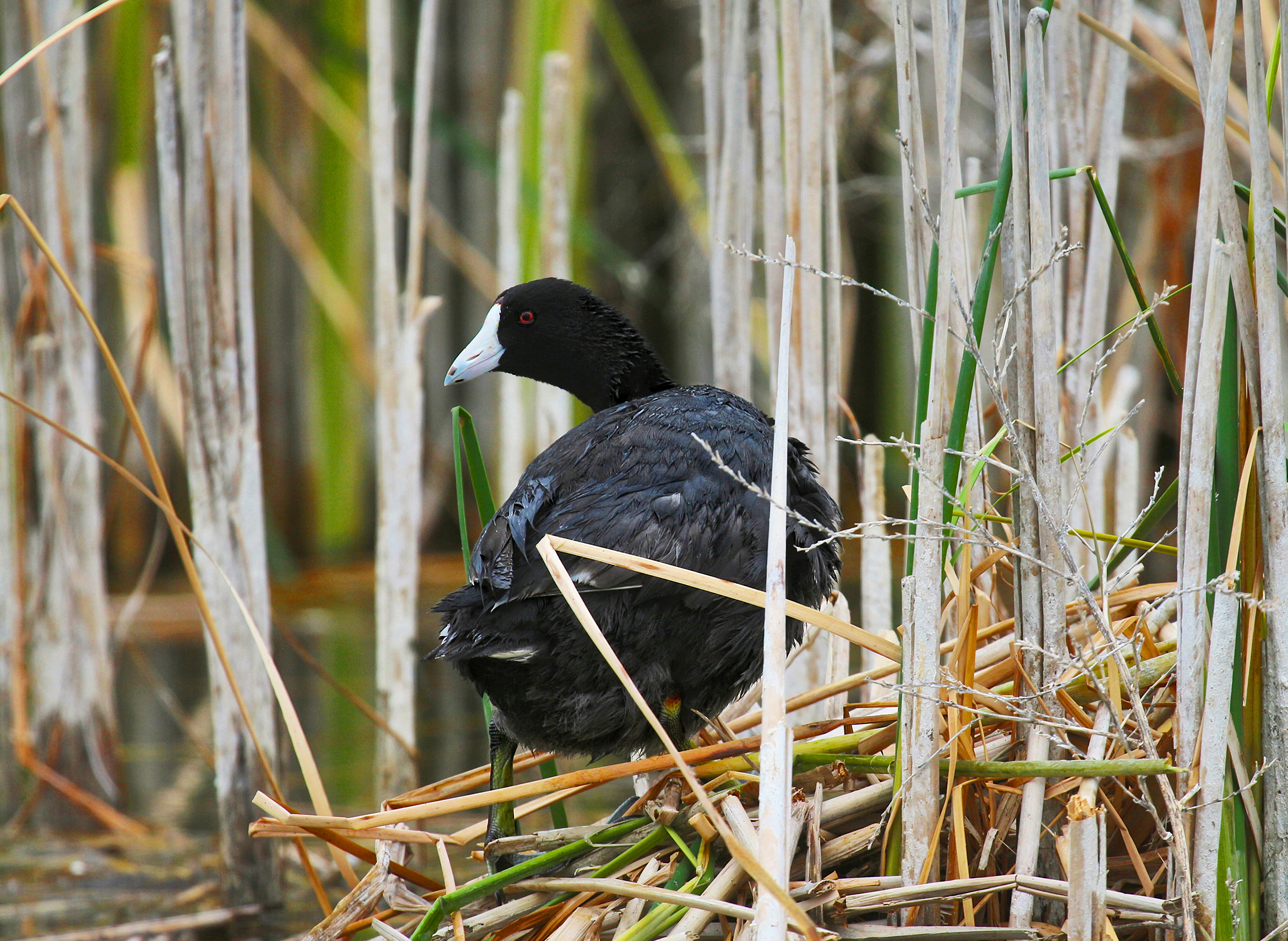 American coot (Fulica americana) paused by its nest